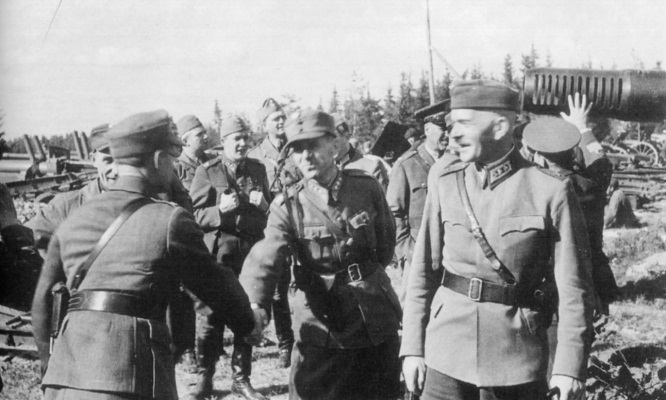 The reconquest of Viipuri in 1941. General Lennart Oesch (right) and his chief-of-staff colonel Valo Nihtilä. Lot of pillaged Soviet materiel in the background.